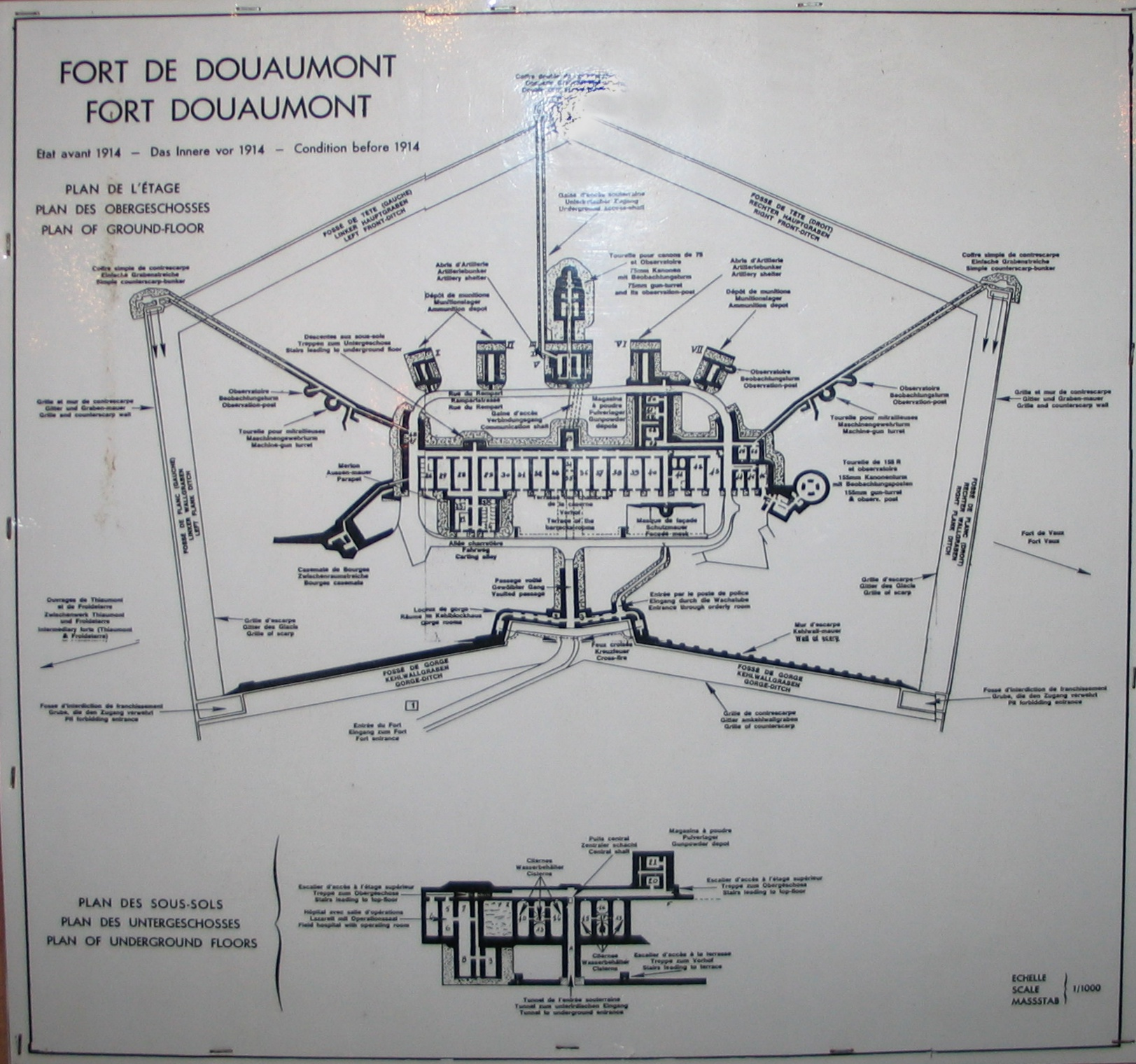 Diagram depicting layout of Fort Douaumont before 1914.